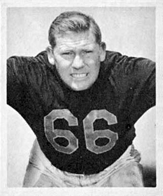 National Football League player Bulldog Turner depicted with the Chicago Bears on a 1948 Bowman Gum football trading card